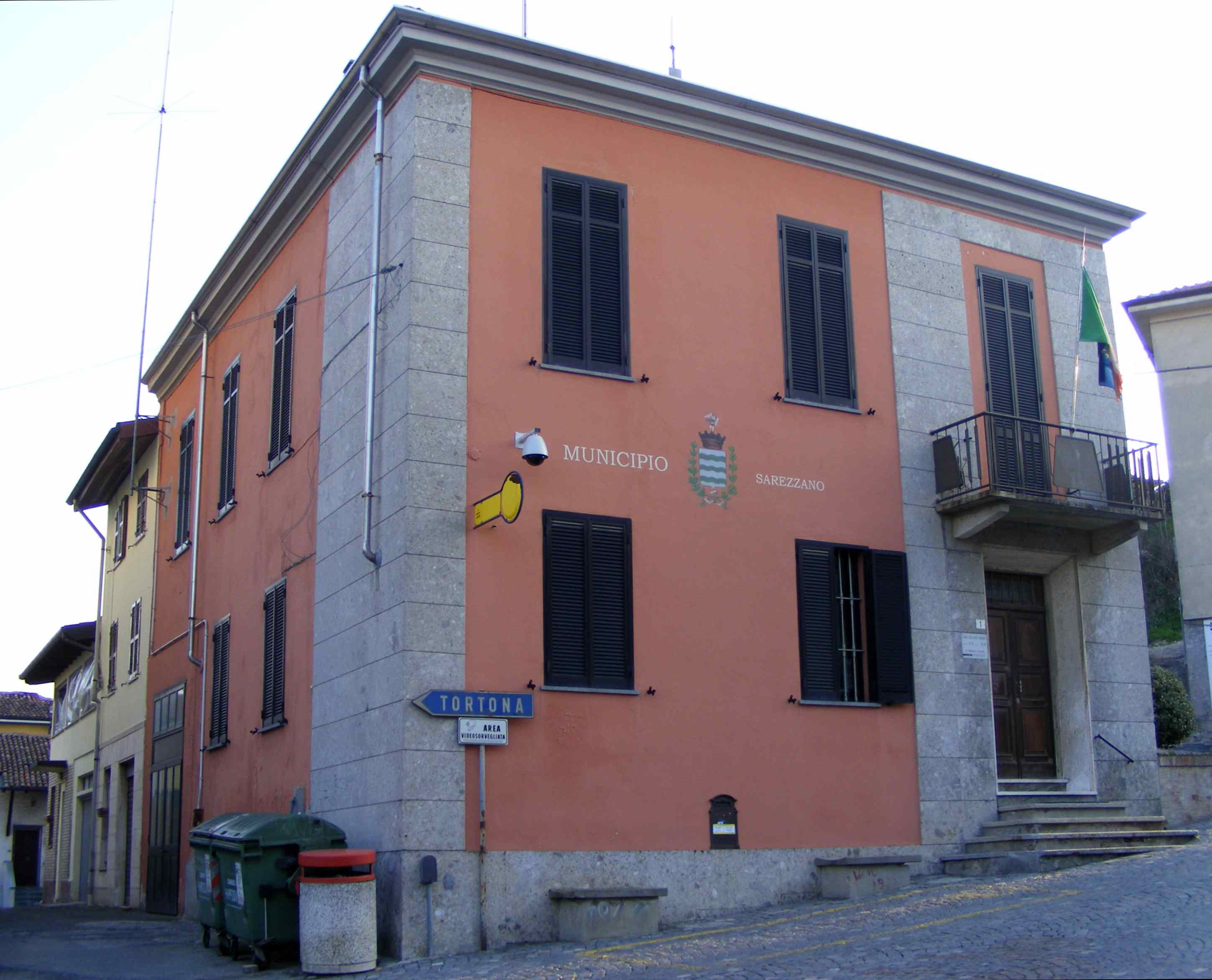 Sarezzano (AL, Italy): town hall